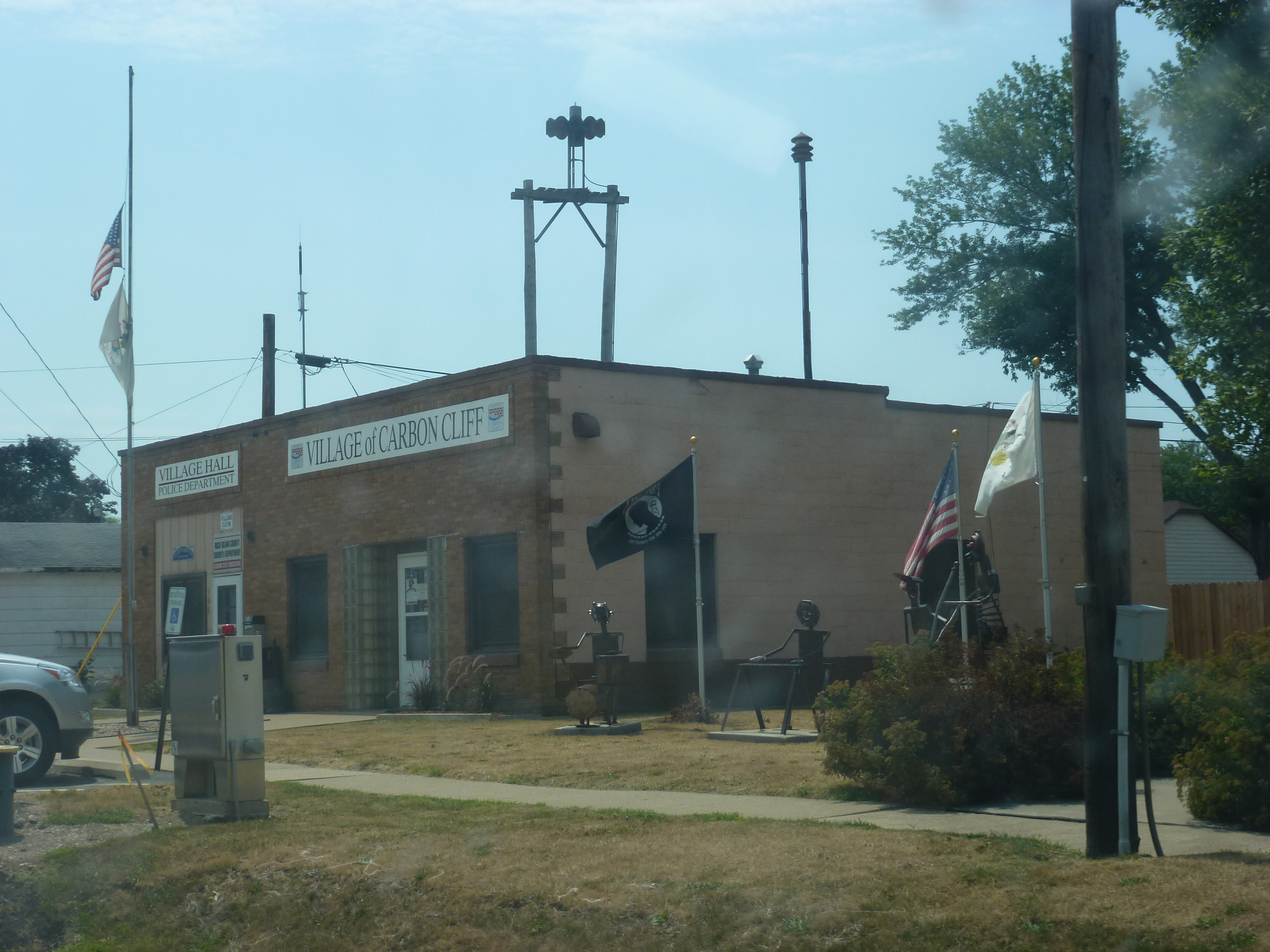 Carbon Cliff Village Hall, Carbon Cliff Illinois